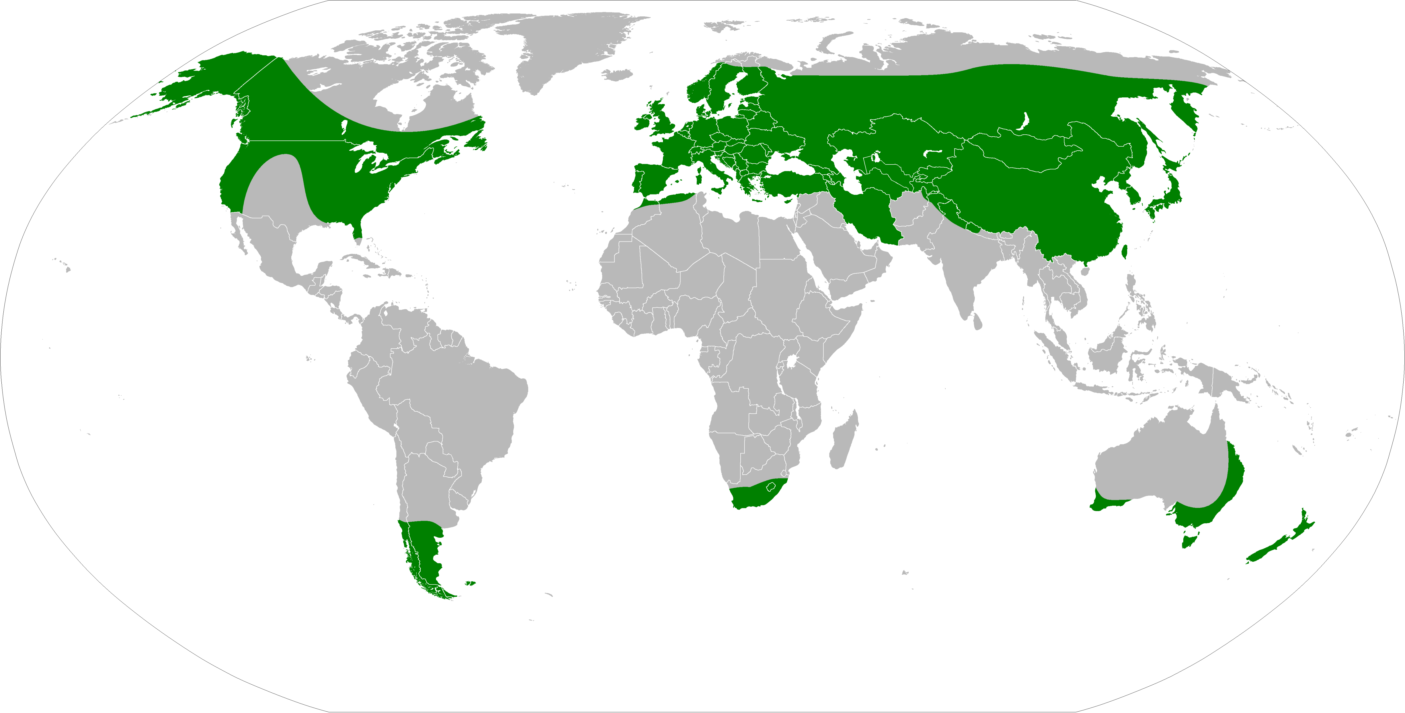 Distribution of Cenococcum geophilum